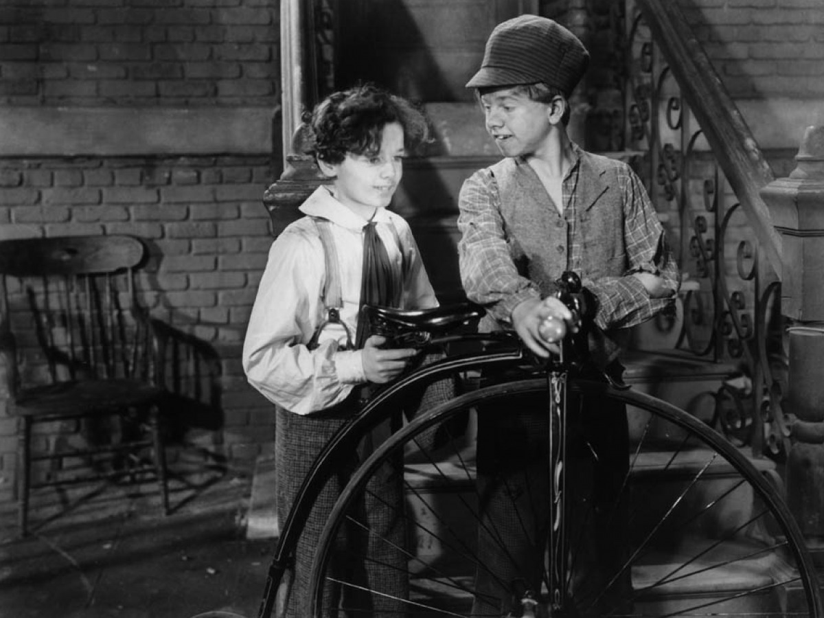 Freddie Bartholomew & Mickey Rooney in Little Lord Fauntleroy - cropped screenshot